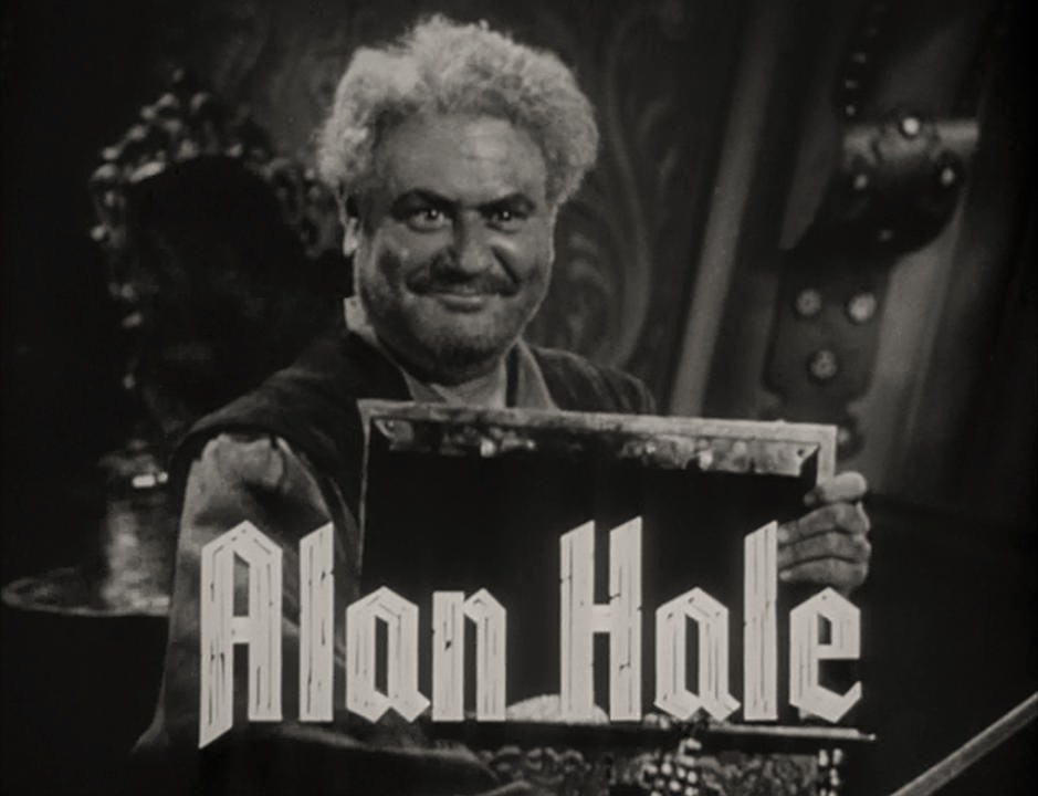 Alan Hale in the American film The Sea Hawk (1940) - trailer (cropped screenshot)